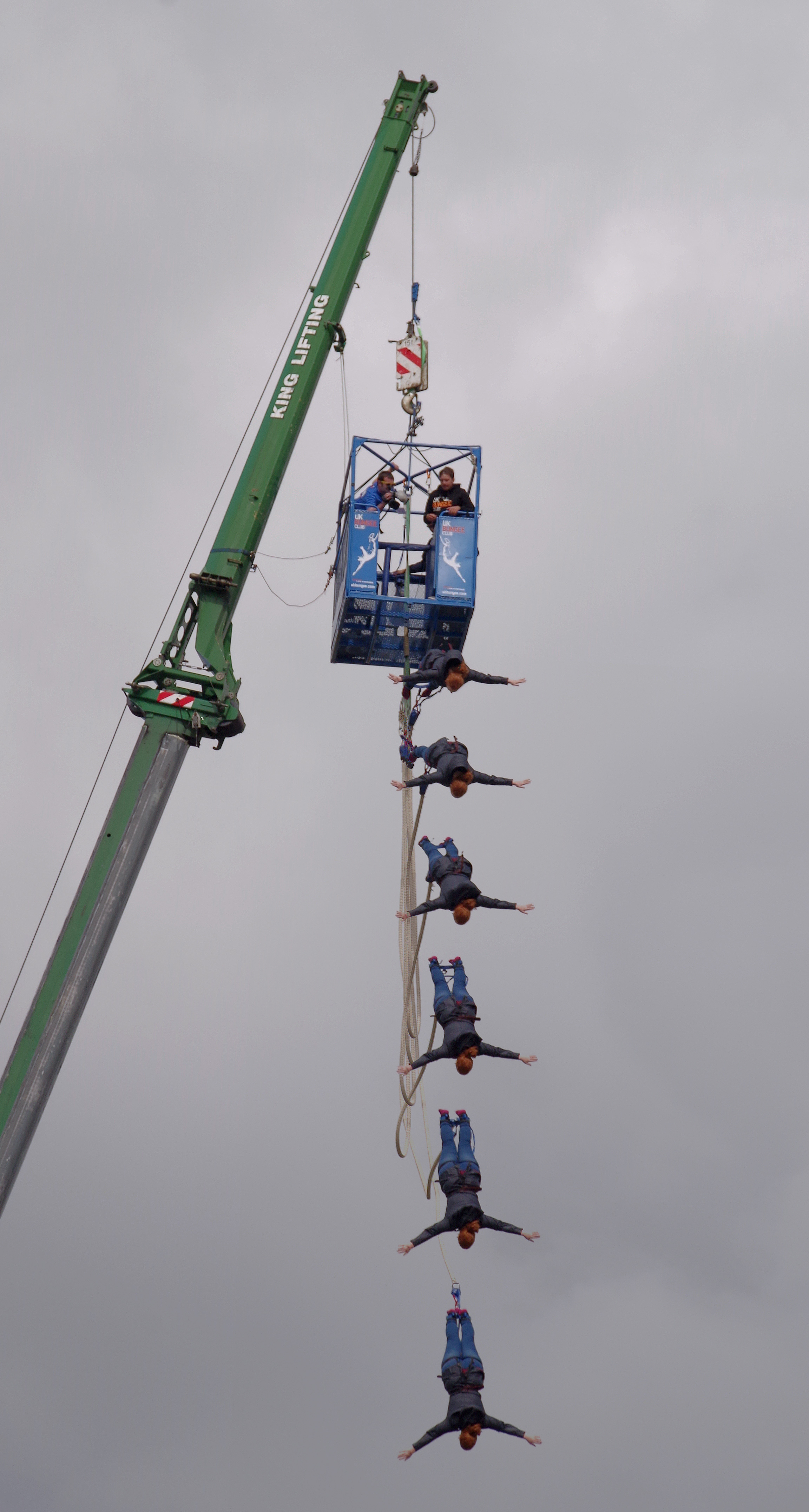 Bungee jumping from a crane by Bristol Docks. Obviously this is a composite image.